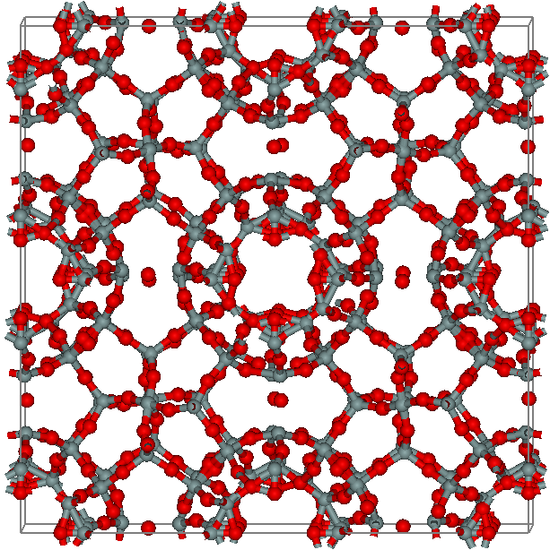 Melanophlogite (SiO2). Red atoms are Oxygen